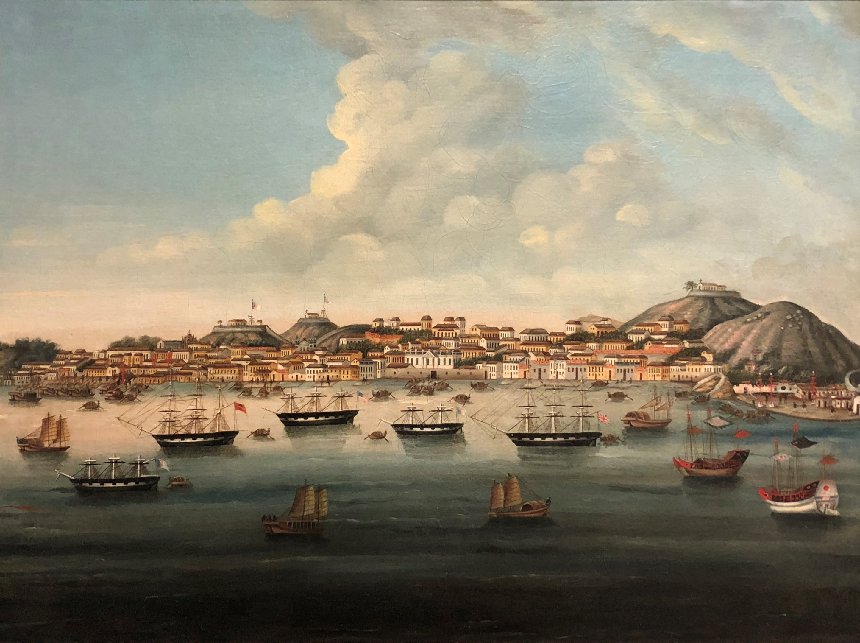 Chinese painting of Macao from the 19th Century, oil on canvas. Exhibit in the Asian Civliisations Museum, SIngapore.